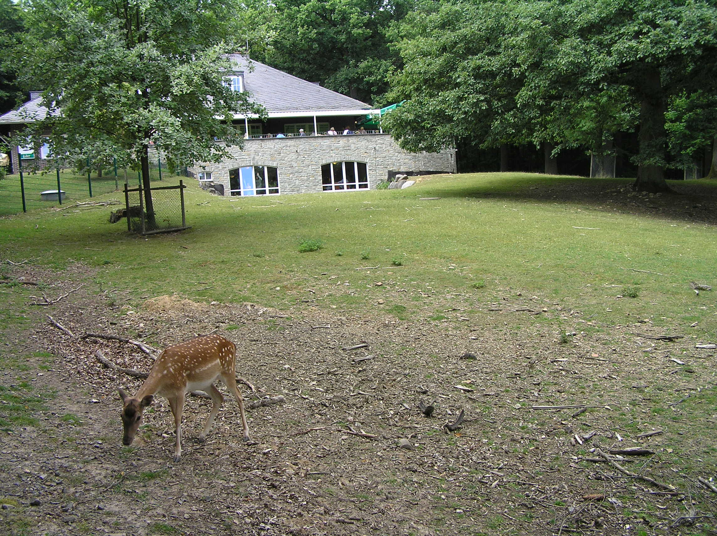 Restaurant Hirschgarten Dornholzhausen, Dornholzhausen, Bad Homburg, Germany